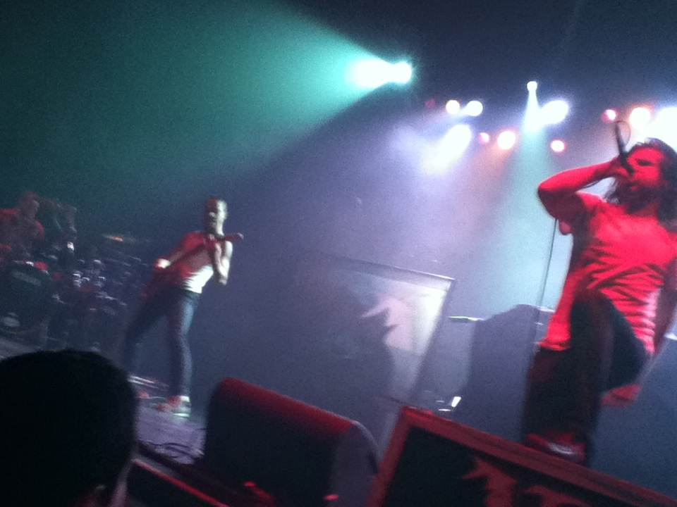 Veil of Maya in concert in Los Angeles.